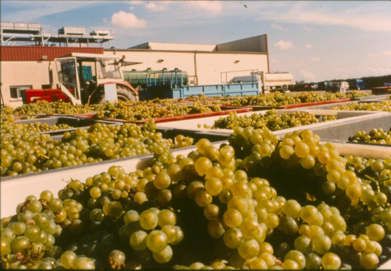 Raisins for export in Patras.